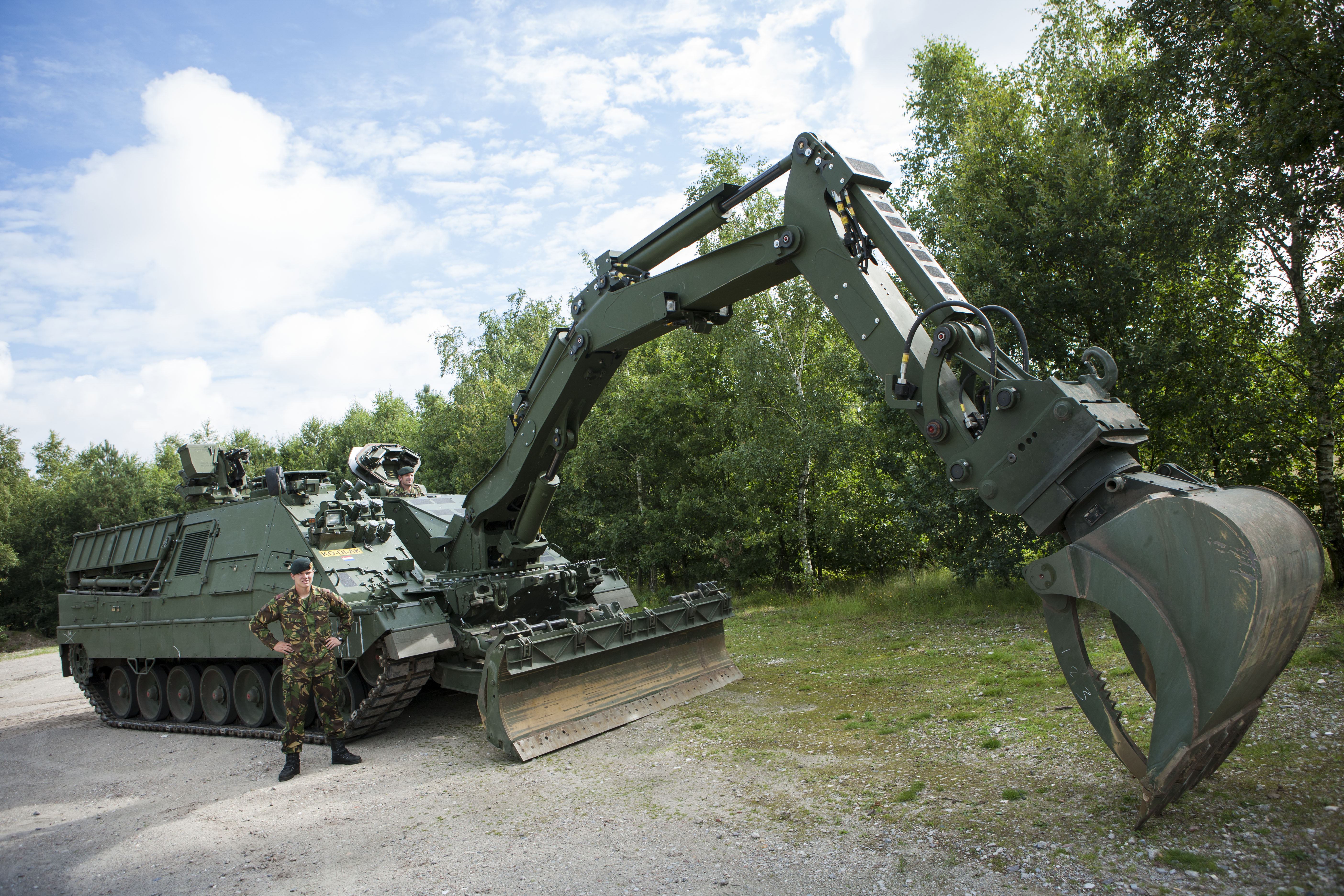 kodiak showing of his crane